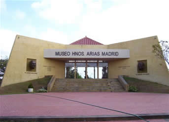 Museo de la Historia Nacional de Penonome